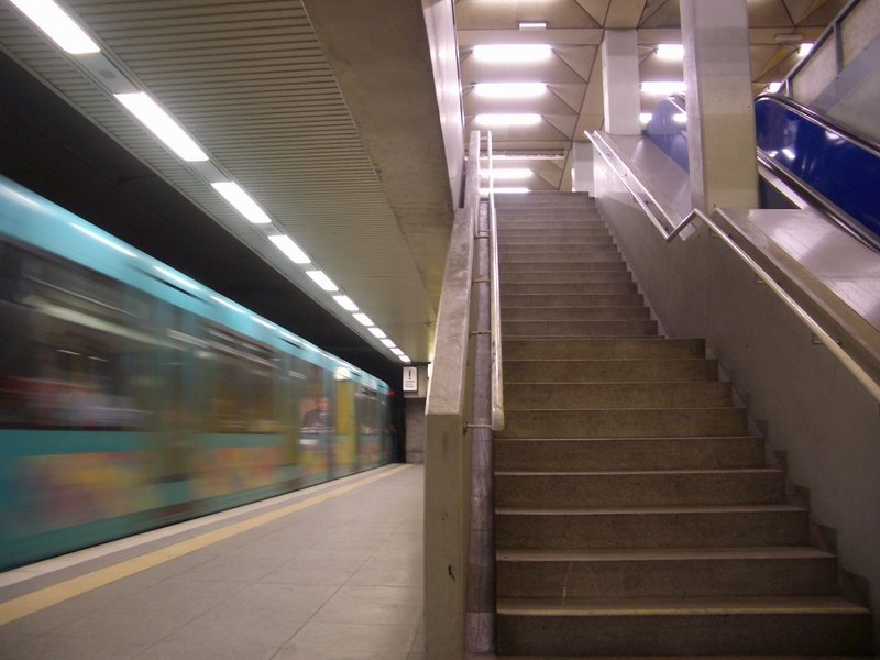 Eschenheimer Tor subway station in Frankfurt am Main, Germany